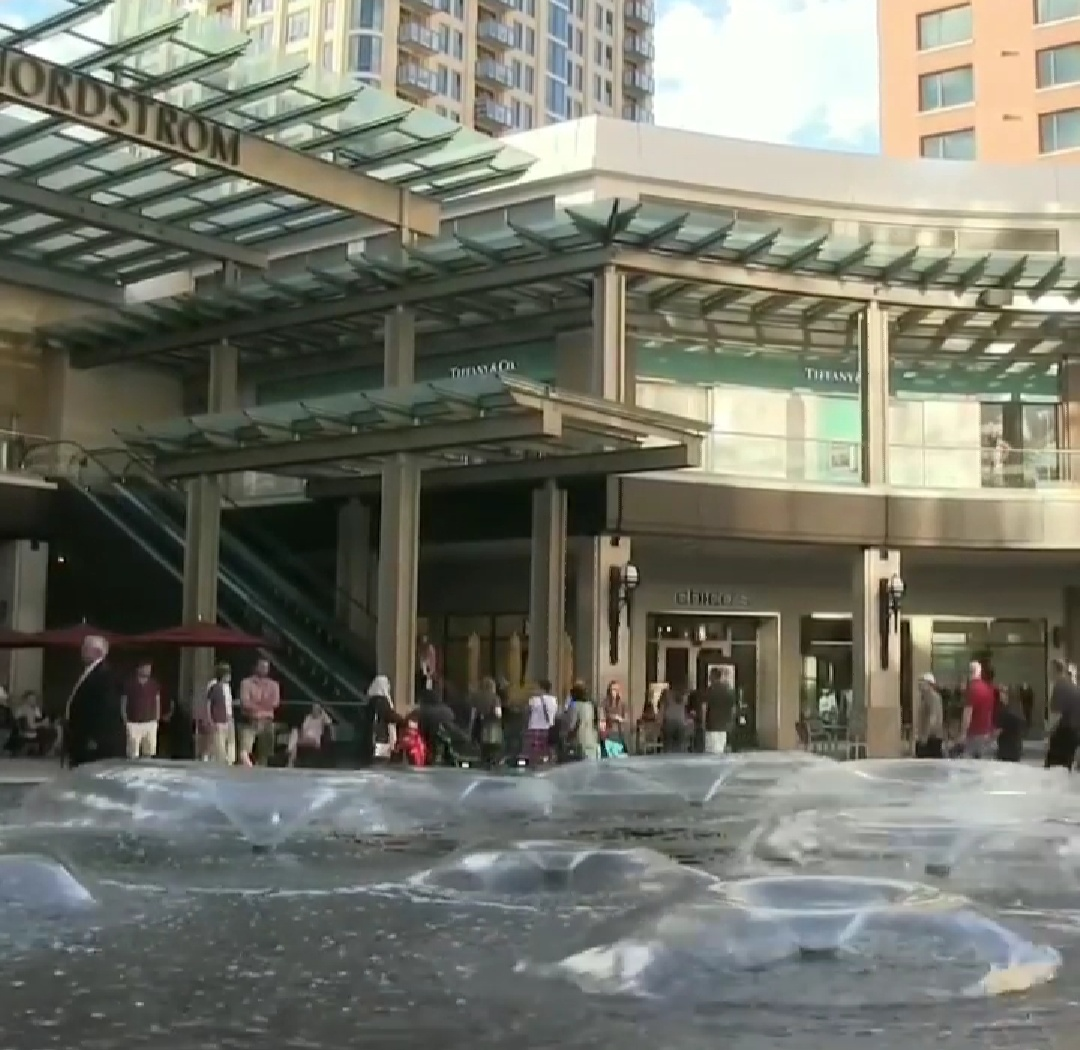 Wet design